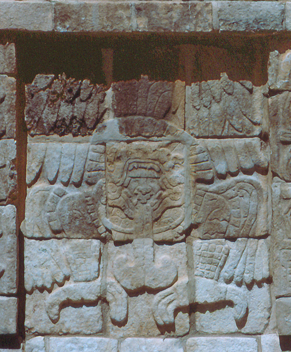 Chichén Itzá, Yucatan, Mexico: birdman relieve at Venus plattform